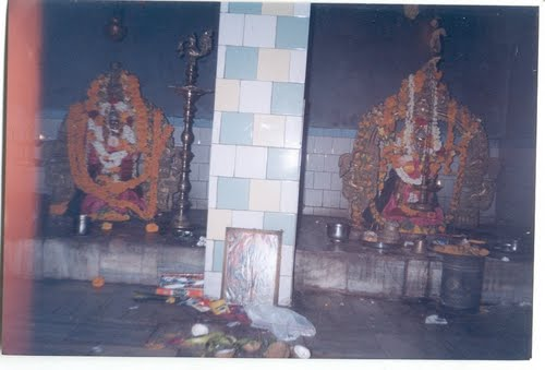 This is the picture of Chikkamma Doddamma God at Bikkanapalli by Madesh Chikkegowda2002